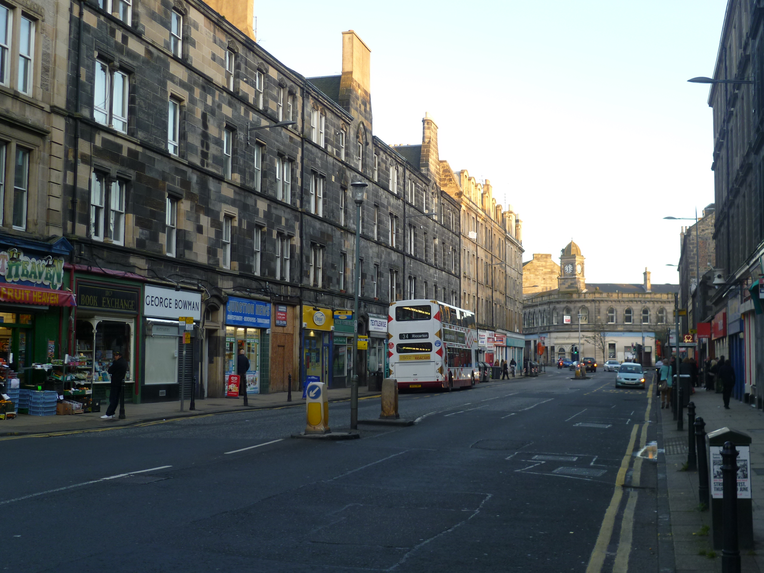 Looking towards the foot of Leith Walk with the old Leith Central Station building and its clock.